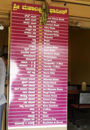 Karnataka, India.